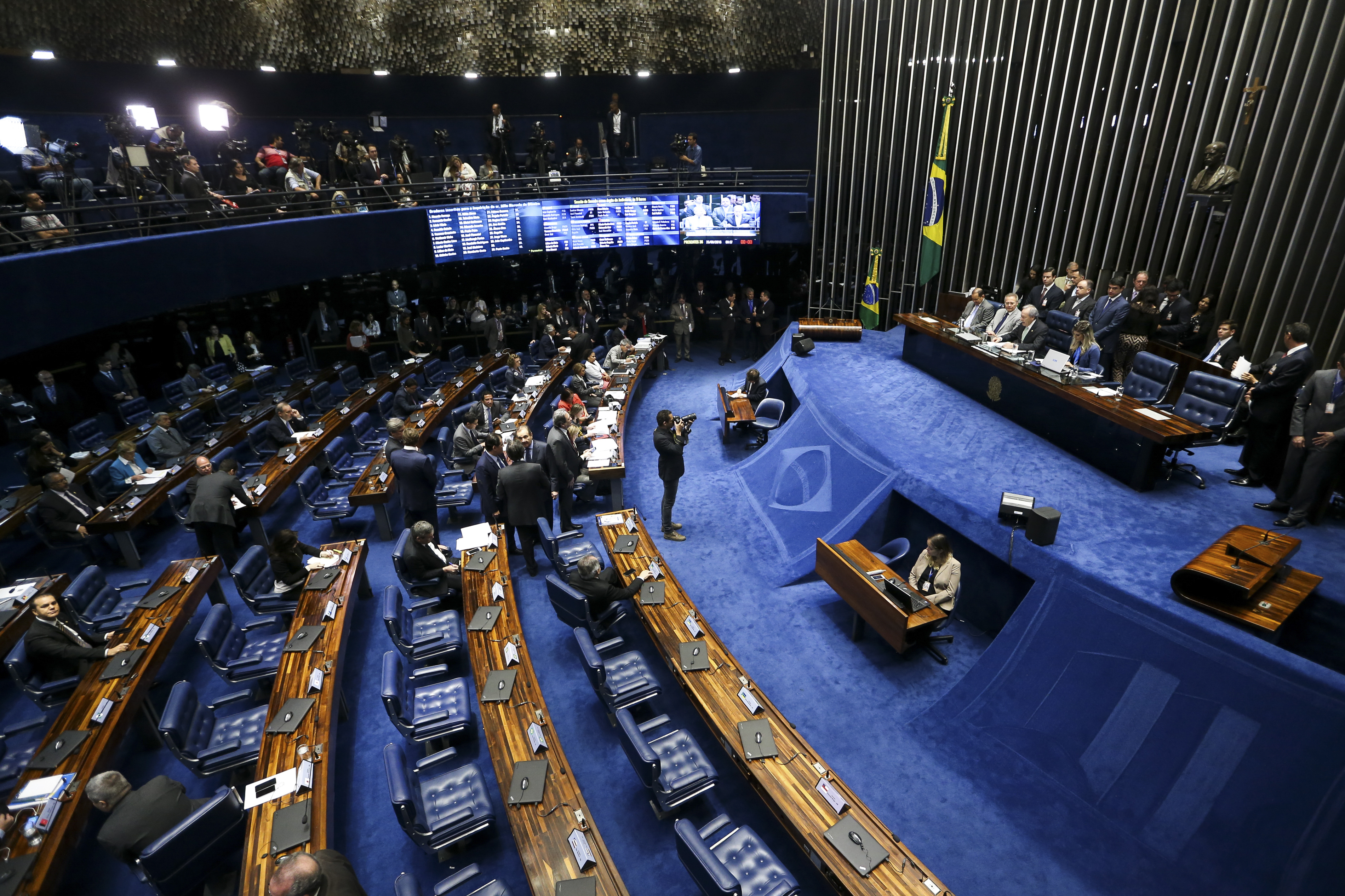 Brasília - Tem início o primeiro dia da sessão de julgamento do impeachment da Presidente afastada, Dilma Rousseff. (Marcelo Camargo/Agência Brasil)